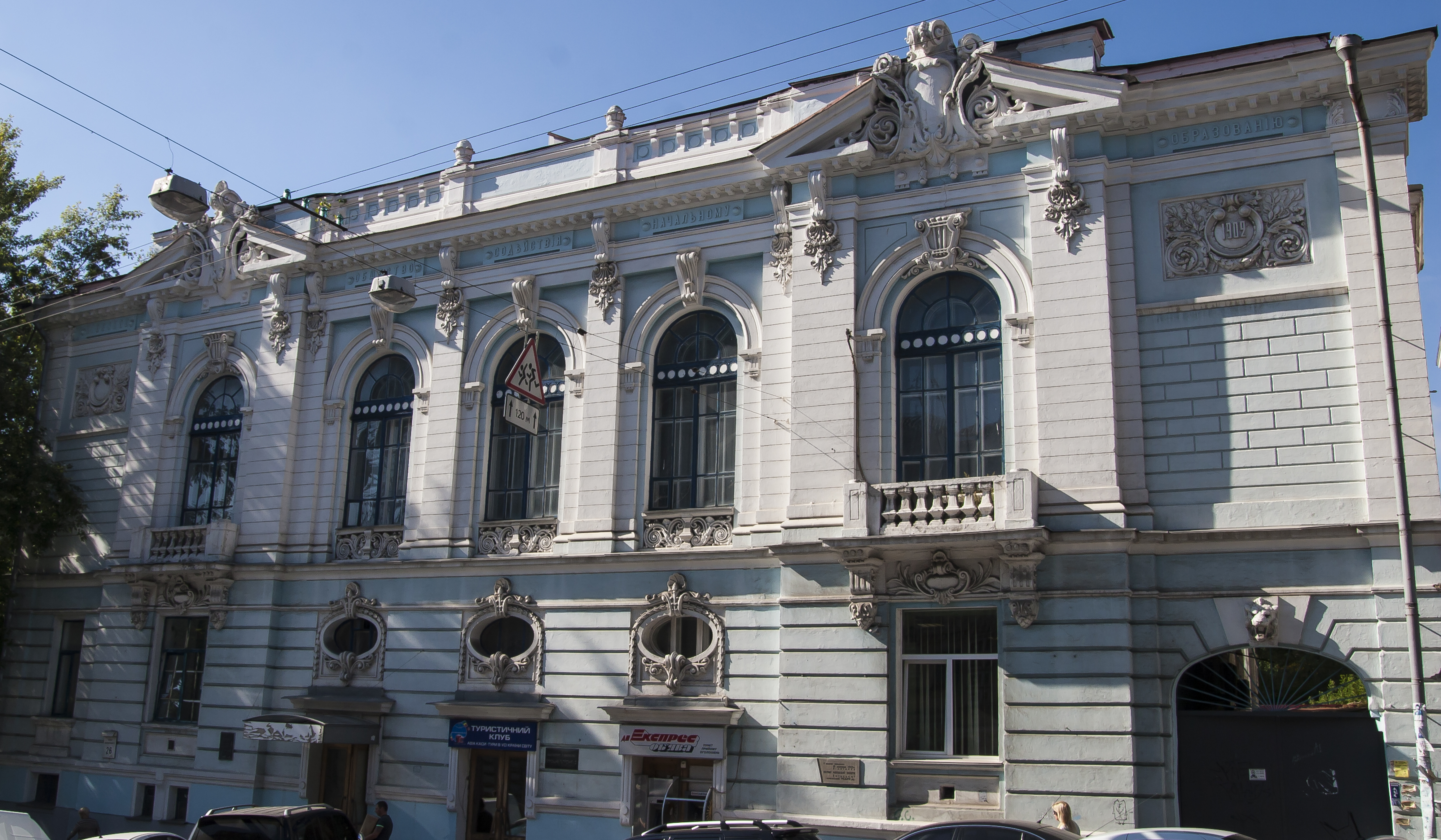 Building of People's Auditorium in Kyiv